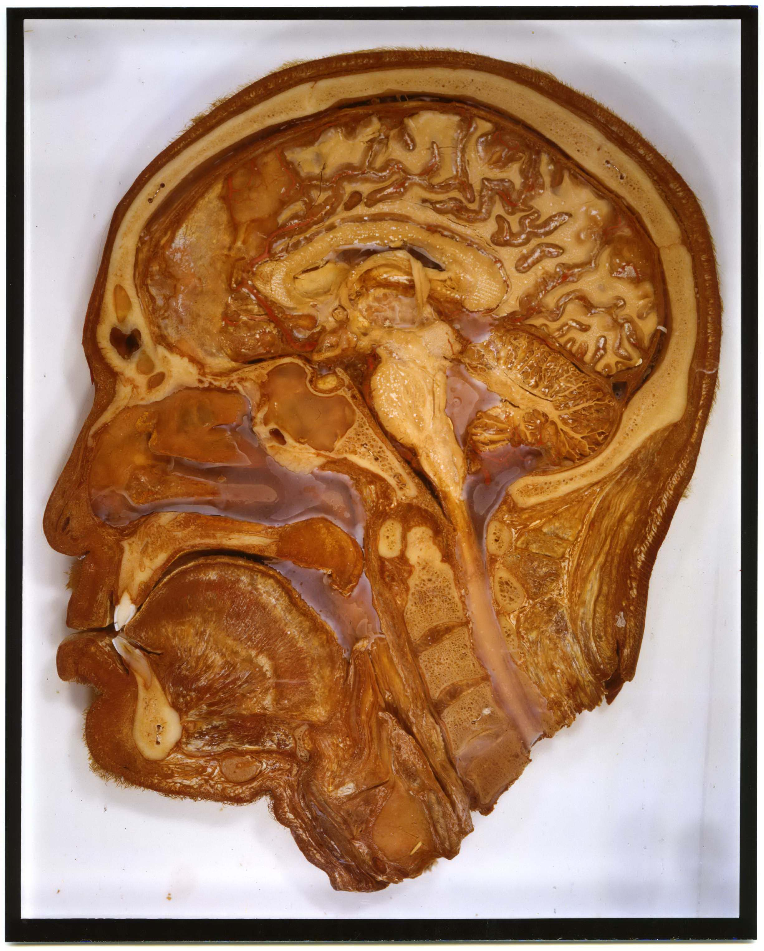 A VERTICAL LONGITUDINAL SECTION OF A HUMAN HEAD MADE A LITTLE TO ONE SIDE (THE RIGHT) OF THE MEDIAN LINE. THE GREY MATTER OF THE BRAIN IS STAINED RED AND THE MUSCLES OF THE NECK ARE PAINTED A NATURAL TINT. THE SECTION ; DISPLAYS THE ANATOMY OF THE..[head and neck?]. Contributed by Gloria Edinak; photographed by Robin Anne Ferris. Received September 1989. Anatomy. Anatomical specimen